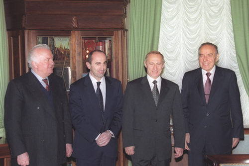 THE KREMLIN, MOSCOW. President Putin meeting President Heidar Aliyev of Azerbaijan (right), President Robert Kocharian of Armenia and President Eduard Shevardnadze of Georgia (left).